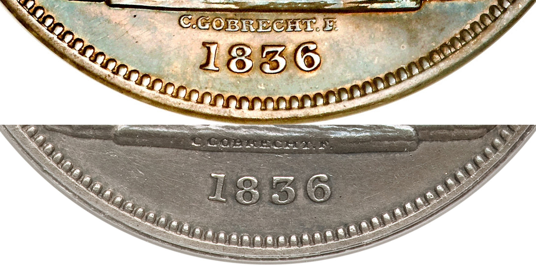 1836 P$1 Gobrecht Name varieties